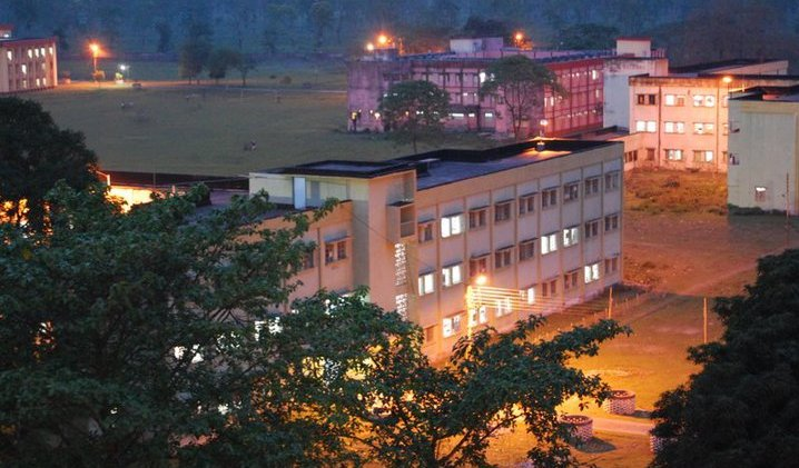 evening view of Hostels in JGEC